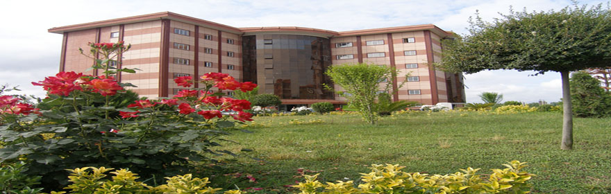 EnsaniSari